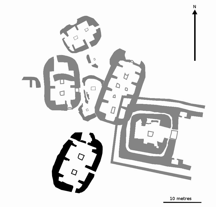 Plan of the Ness of Brodgar with structure #12 highlighted.